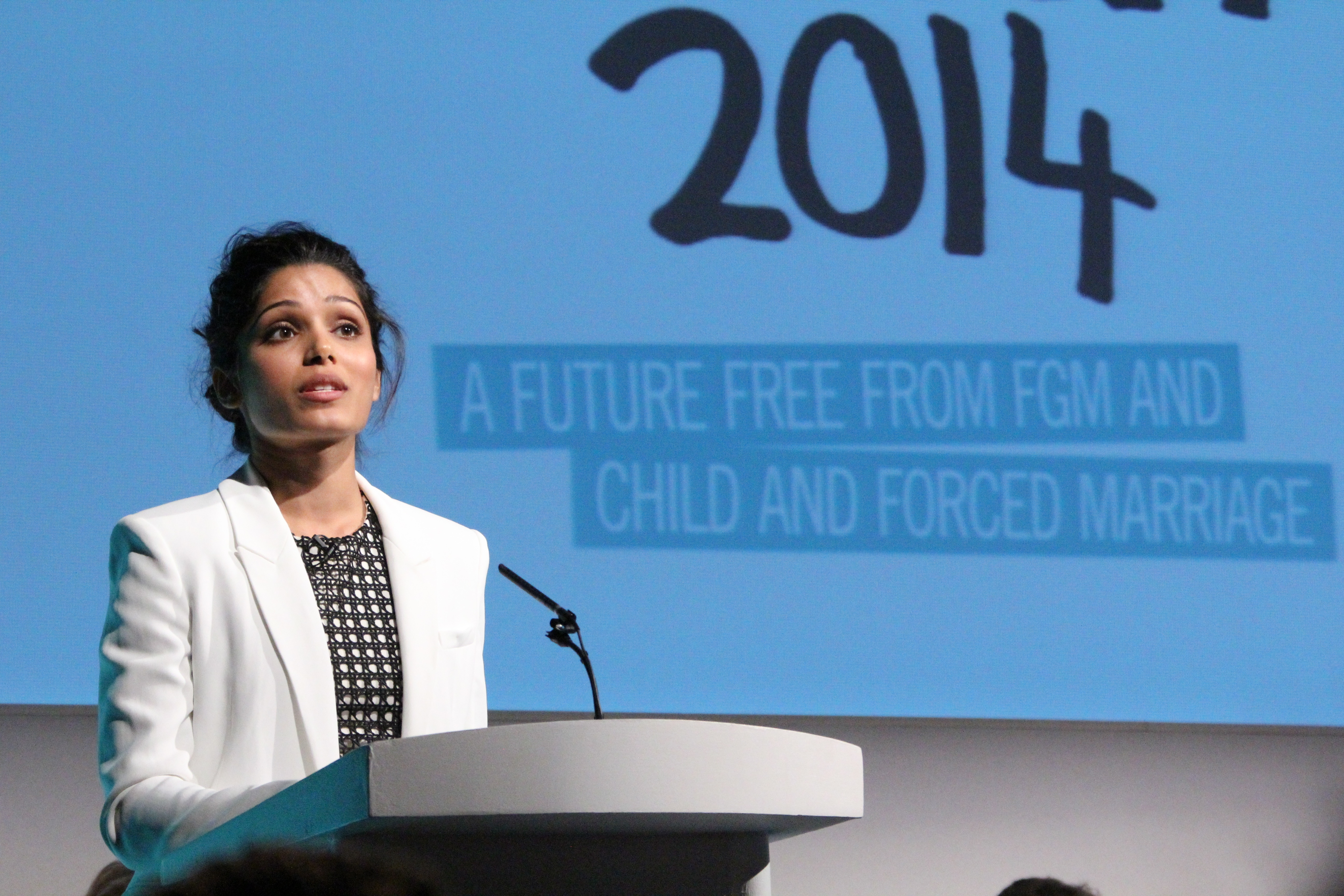 Picture: Russell Watkins/Department for International Development. Available free under the terms of Crown Copyright/Open Government License/Creative Commons - Attribution